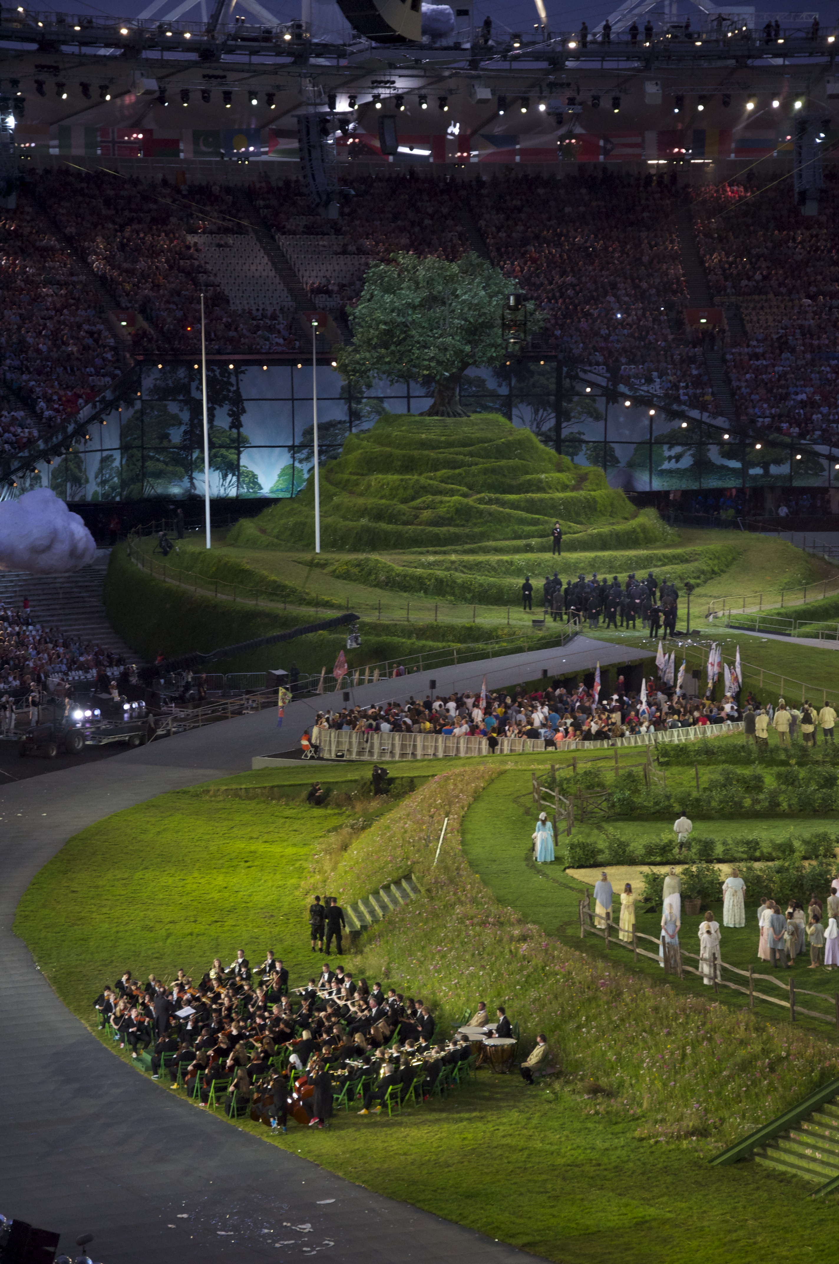 2012 Summer Olympics opening ceremony